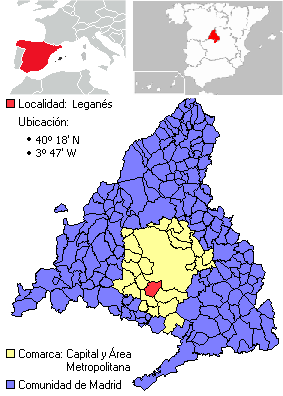 Map of Leganés (Spain) Based on other public domain design